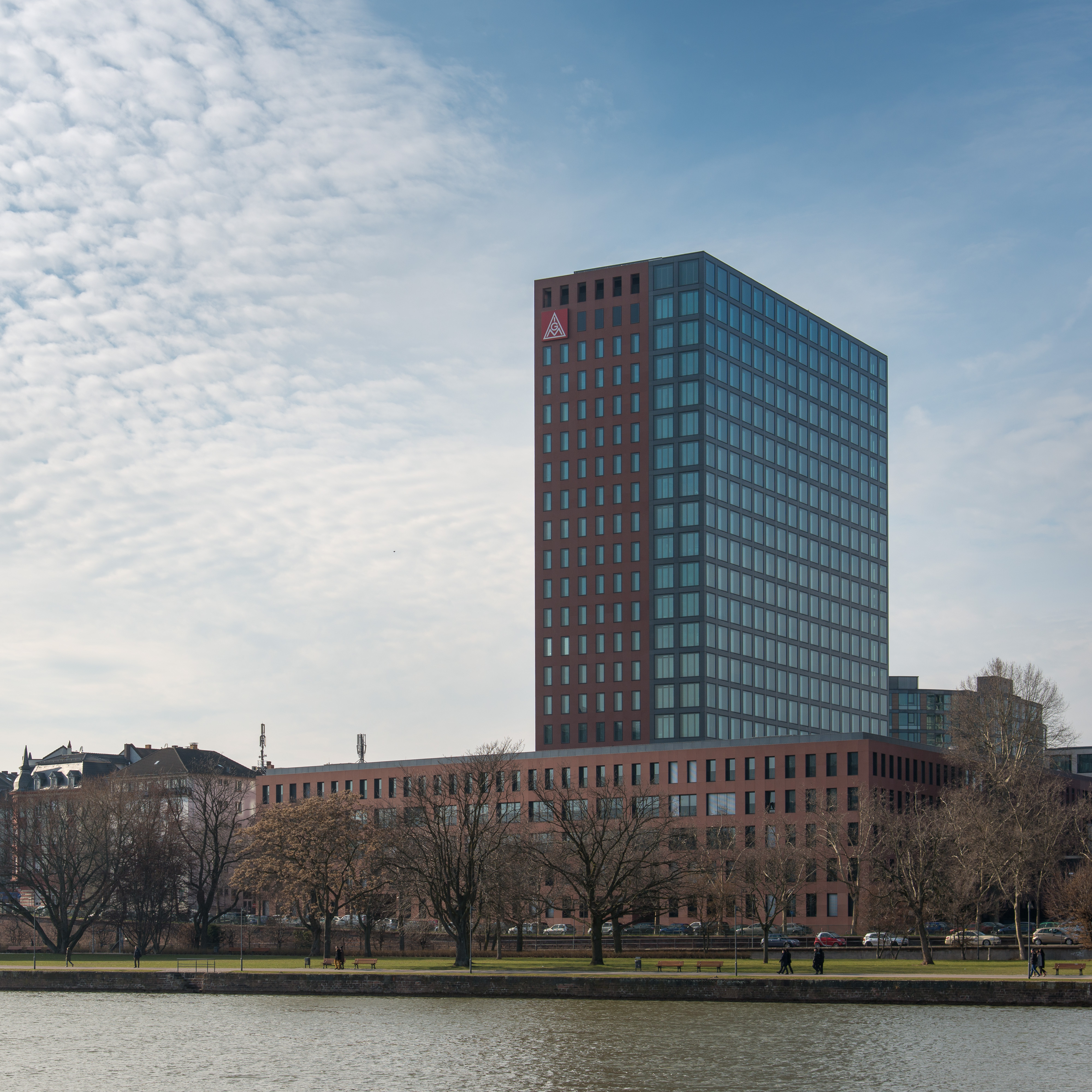 Main Forum office tower between Wilhelm-Leuschner-Straße and Untermainkai in Frankfurt am Main. (March 2013)